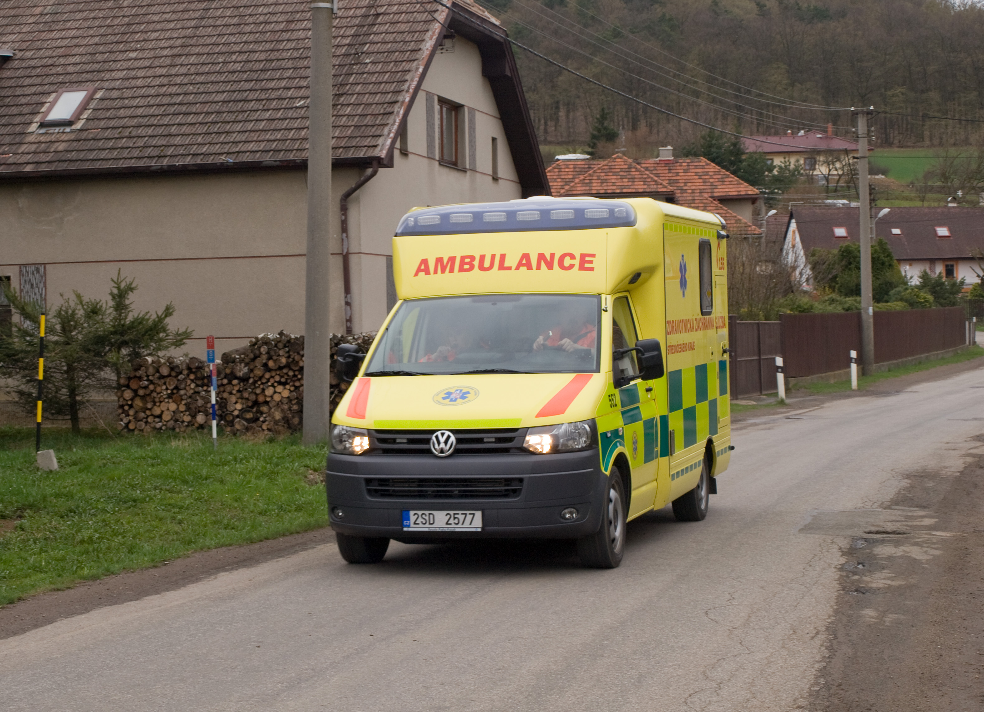 Ambulance, Otmíče, okres Beroun, Středočeský kraj, Česká republika